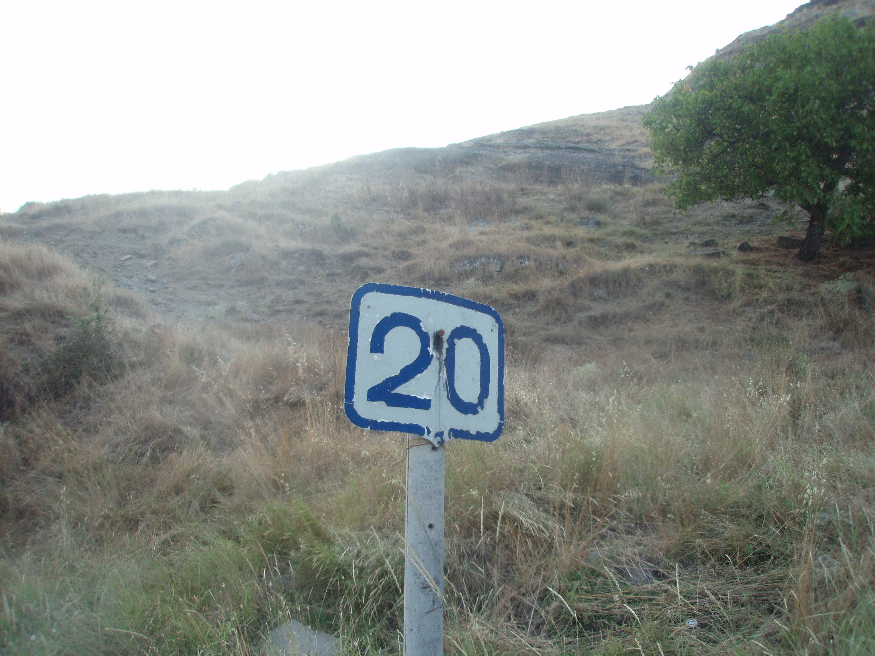 National Road 20, Greece (European Road 90). Section Tsotyli (Tsotili)-Pendalofos, region of Western Macedonia. Enumeration sign of National Road 20 is shown.